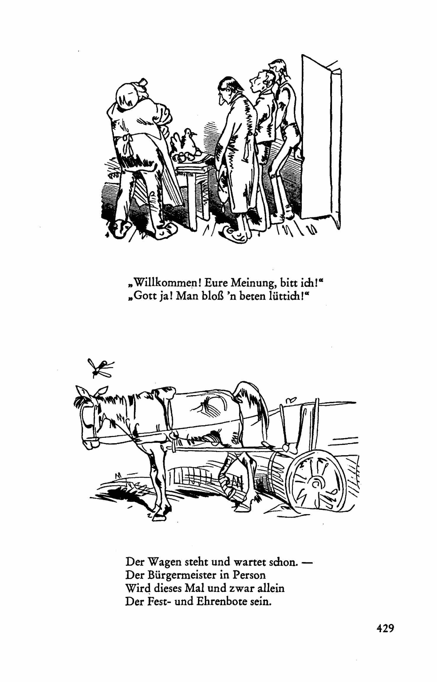 This is a scan of the historical document